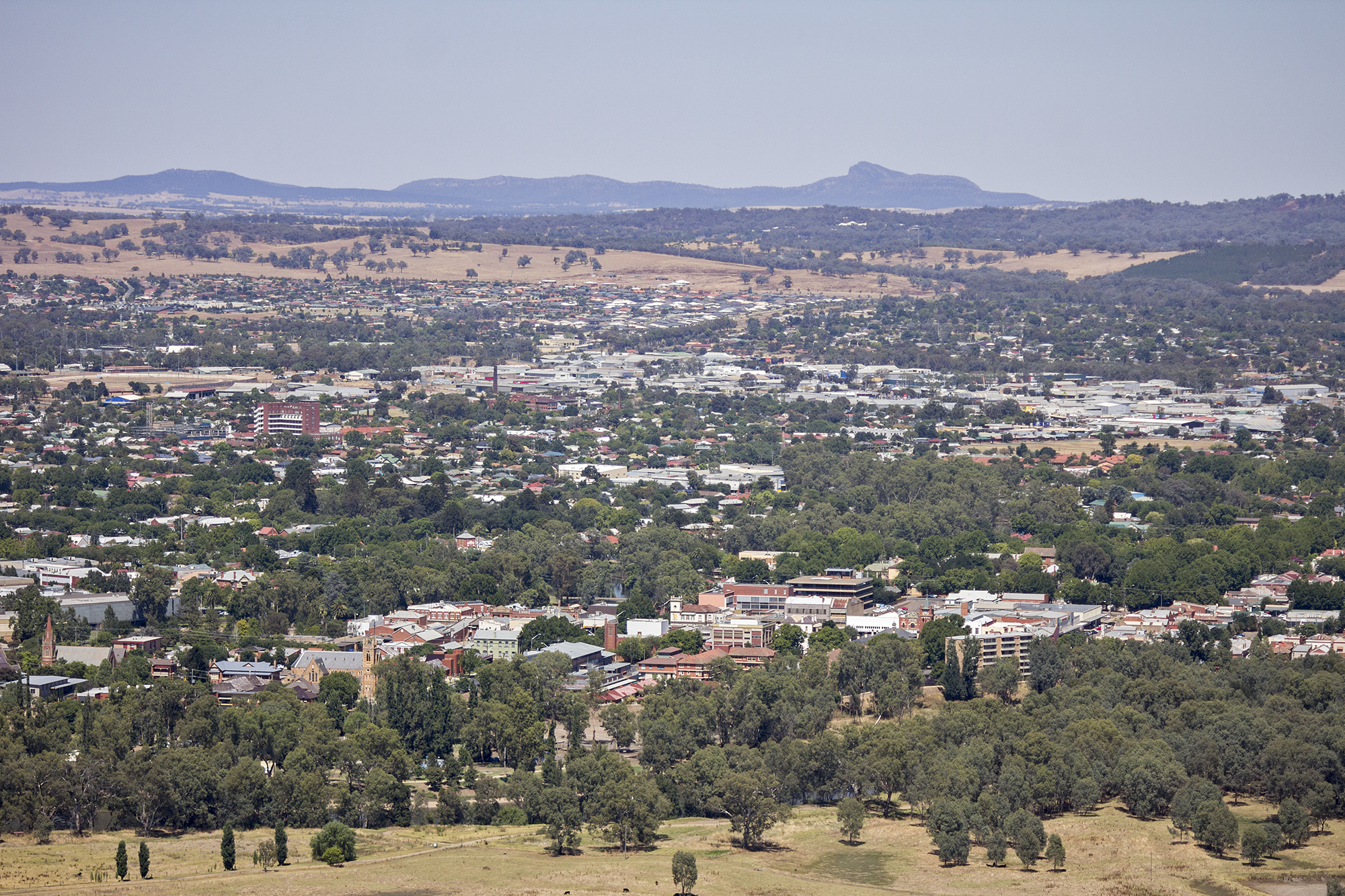 Aerial view of Wagga Wagga.